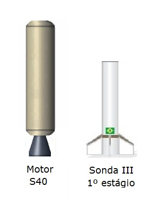 Brazilian Sounding rocket Sonda IV origins shapes.